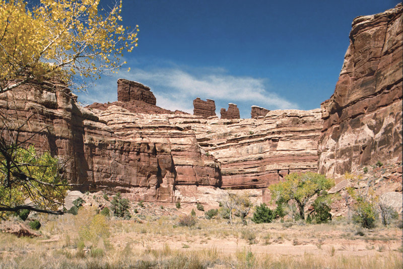 Canyonlands National Park, Utah, USA, Chocolate Drops from the Maze